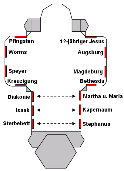 Gedächtniskirche (Memorial Church) in Speyer, Germany